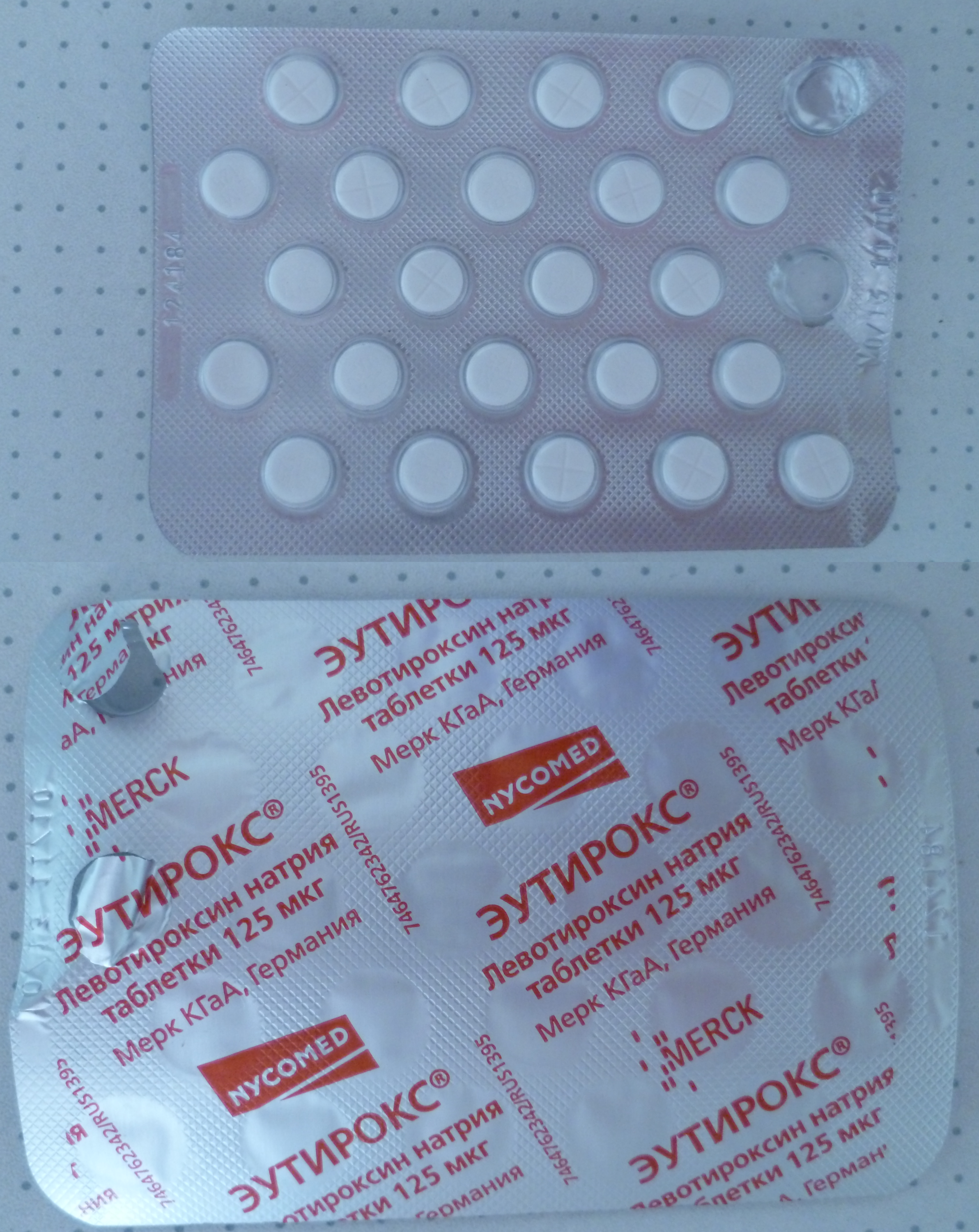 Photo of pack of pills Uetirox (125 mcg)